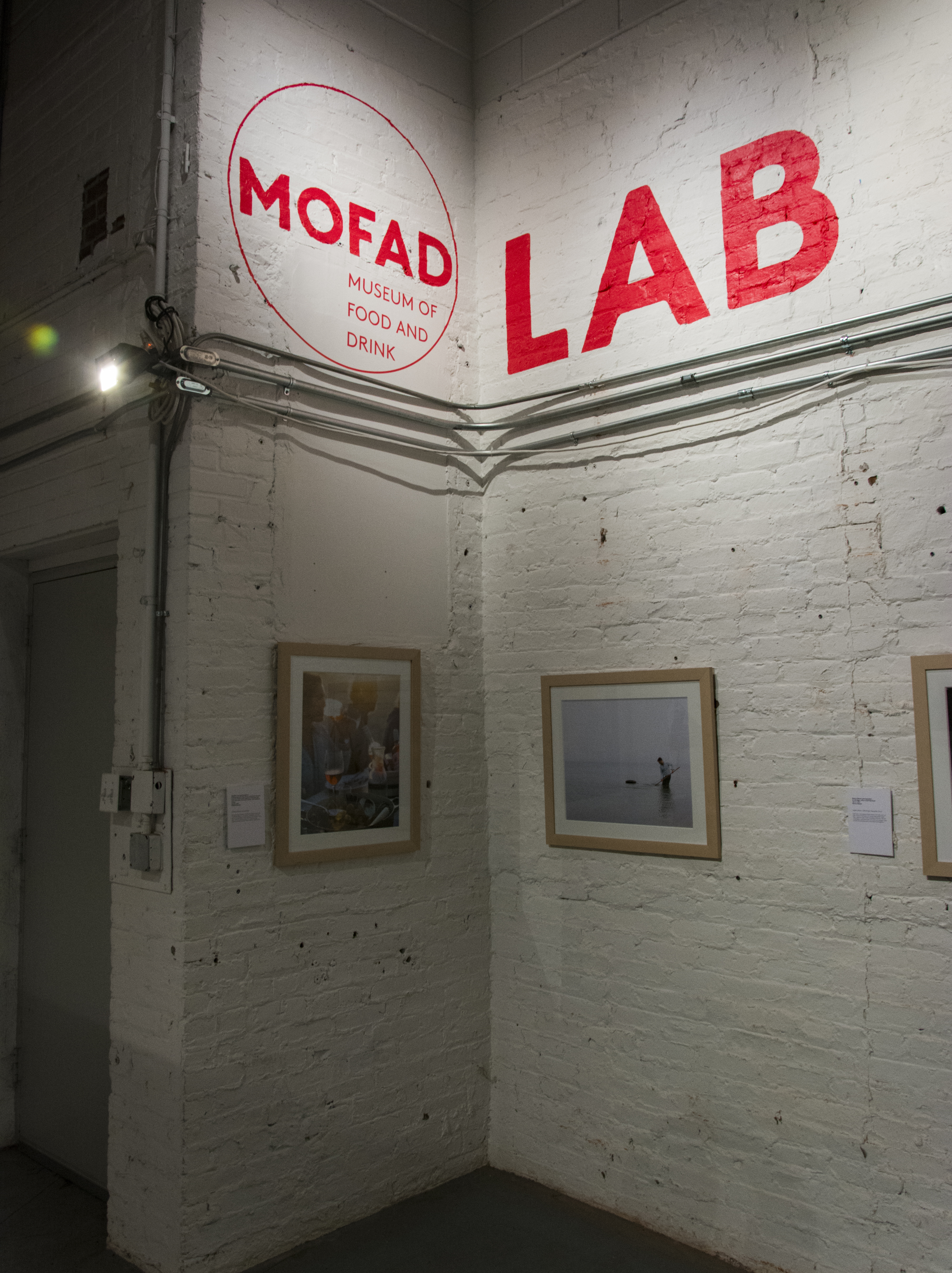 The Museum of Food and Drink in Brooklyn, Feb 3, 2018.